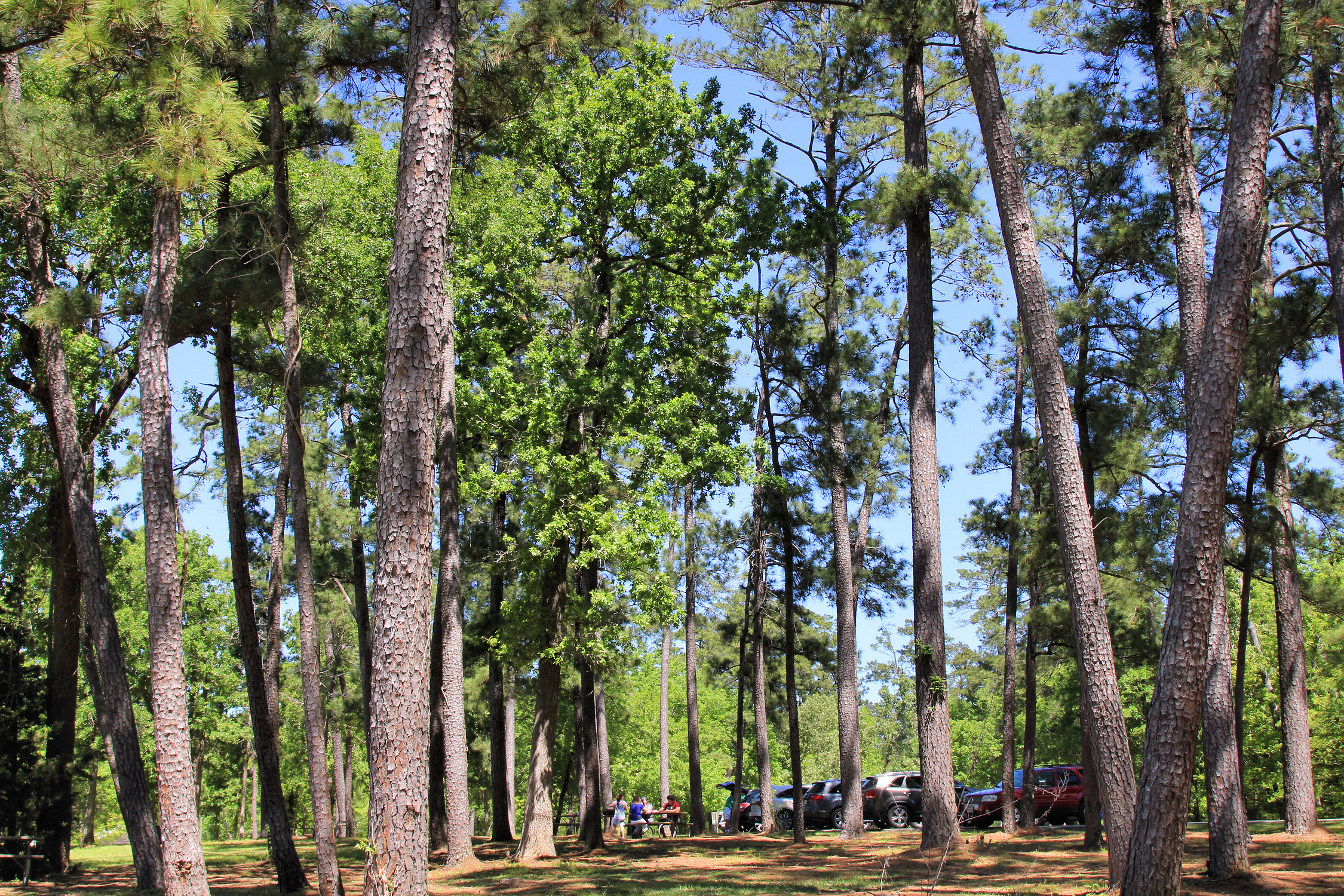 Picnicking in the tall pines of Lake Livingston State Park, Texas, United States